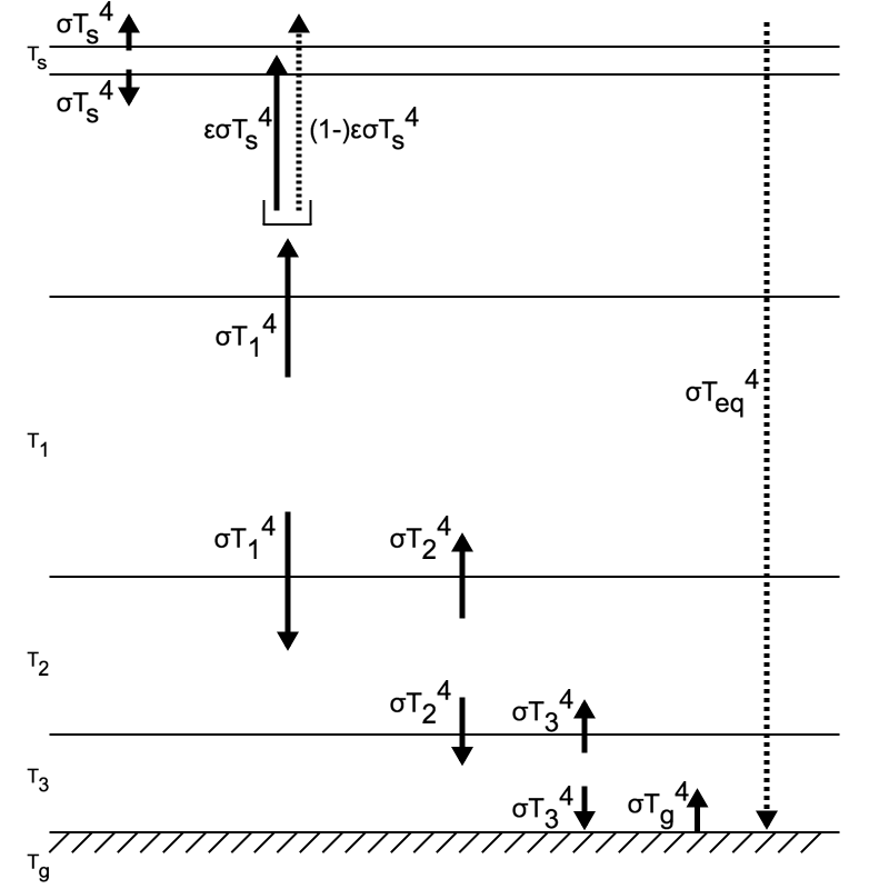 This is a diagram of a many-layered model of an atmosphere. The bottom 3 layers act like ideal greenhouse gases: they are transparent to solar (UV) light, but absorb infrared radiation from the planet (and adjacent layers). These bottom layers act like blackbodies in the IR. The uppermost layer is a 'skin layer' - a thin layer high in the atmosphere that is theoretically the same in composition as the lower layers, but is thin and diffuse enough that it no longer acts like a perfect blackbody, instead radiating and absorbing in the IR like a graybody.